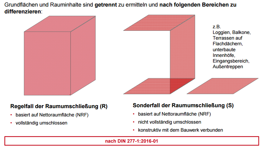 Regelfall Sonderfall Raumumgrenzung